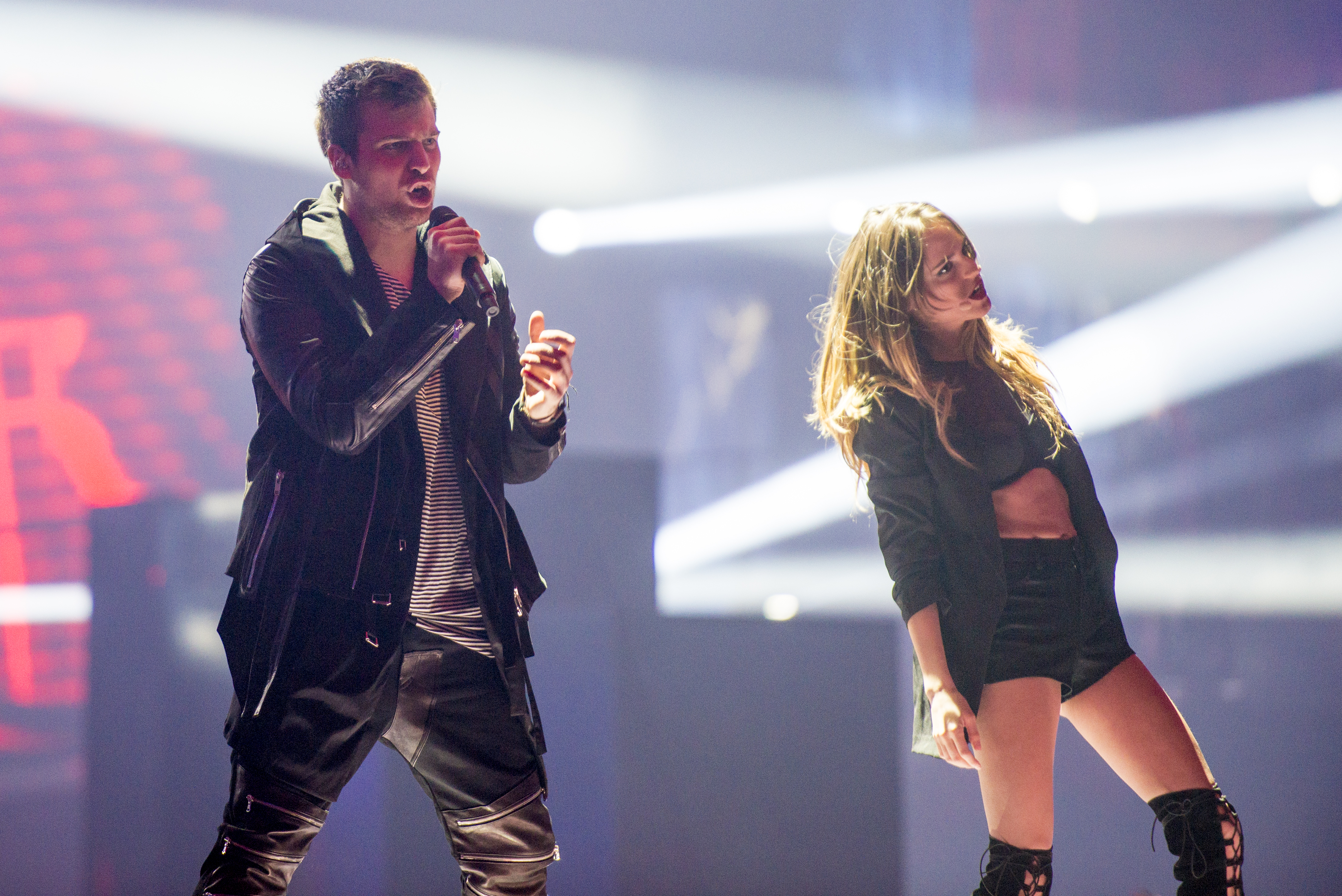 Highway representing Montenegro with the song "The Real Thing" during a rehearsal before the first semi final of the Eurovision Song Contest 2016 in Stockholm. (Help translate this text)